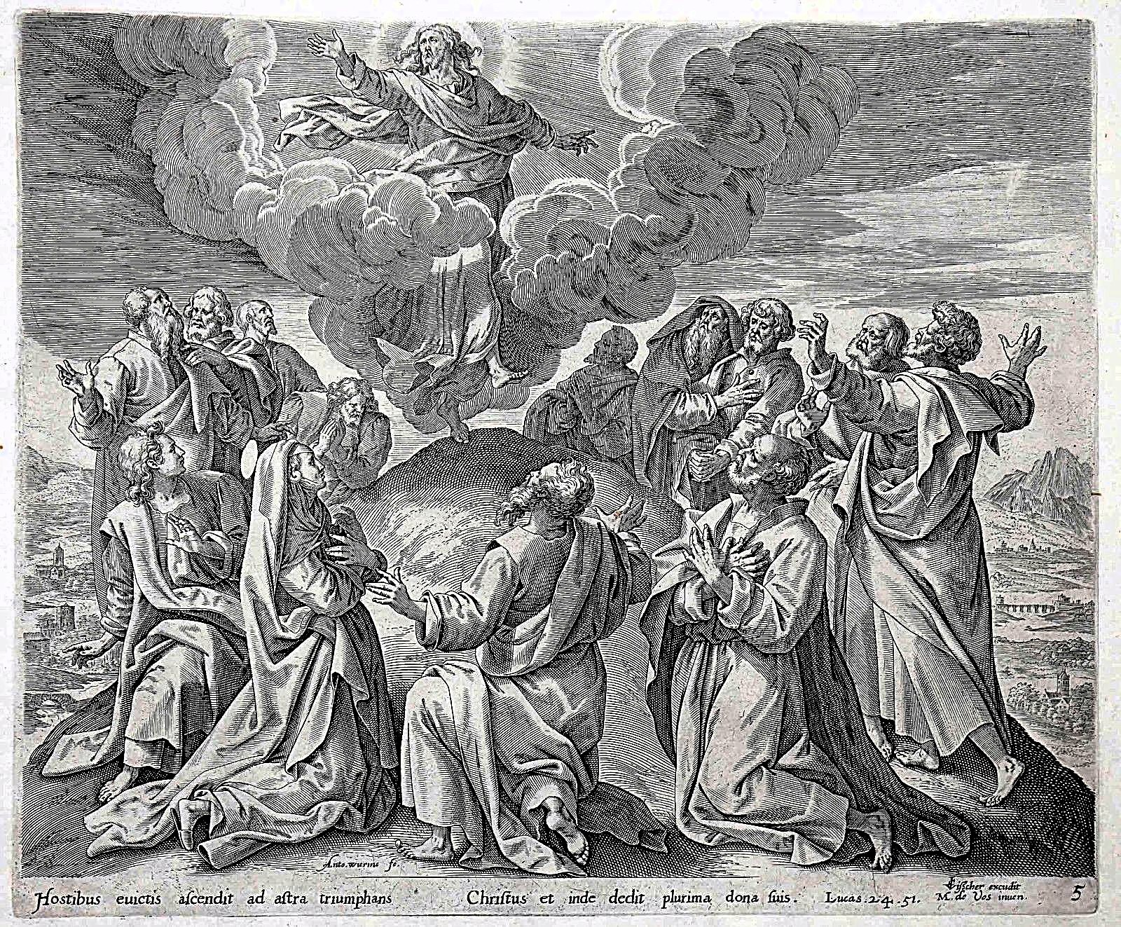 The Ascension of Christ by Cornelis de Visscher after Maerten de Vos & Antonius Wierix (II). Dimensions (work): 26,5x36 cm / Dimensions (support): 36x41 cm Cornelis de Visscher (1629-1658) Etching representing the Ascension of Christ captioned Christus and india dedit plurima dona suis. Cornelis Visscher Cornelis Visscher was born in Harlem or Amsterdam in 1629. He died in Amsterdam in 1658. He is an engraver of the Dutch Golden Age. He made famous engravings in his day and had an unusual talent for drawing a model from nature. Houbraken mentions that his works could be seen in the collection of the wealthy director of the East India Company, who was a collector and had a great art cabinet, Jeronimus Tonneman. The engravings of Visscher's hand were made after famous painters from Haarlem such as Nicolaes Berchem, Adriaen van Ostade, Pieter van Laer and Adriaen Brouwer. He was a pupil of Pieter Claesz Soutman. He joined the guild of St. Luke of Haarlem in 1653.